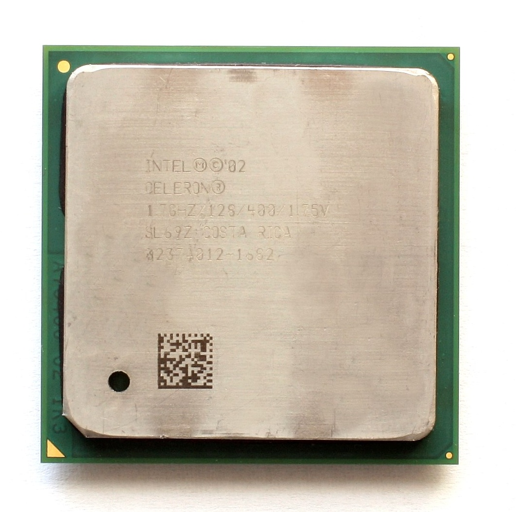 CPU Intel Celeron Willamette.